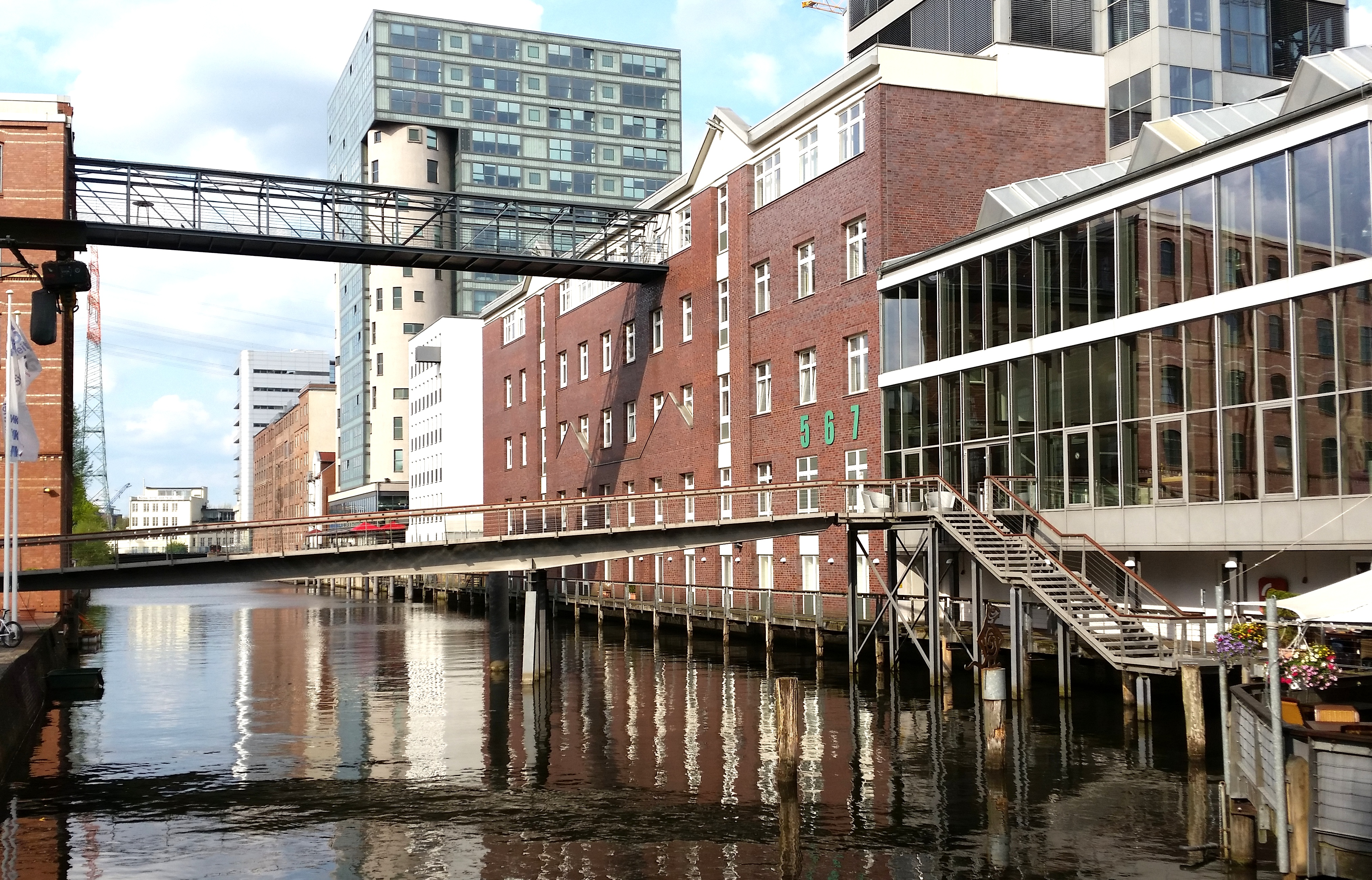 R&M Headquarters in Hamburg-Harburg, Germany